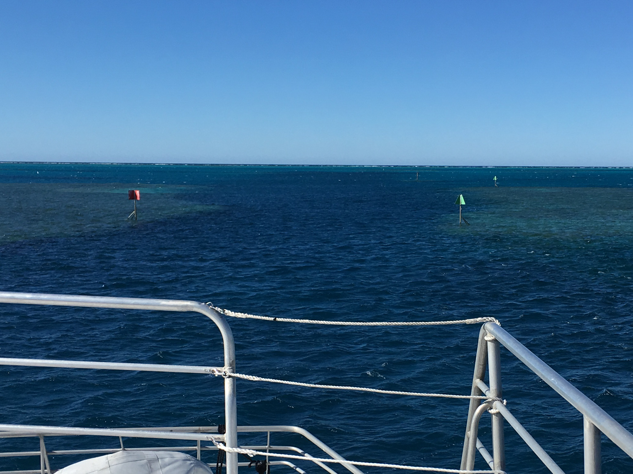 This image shows the entrance to the lagoon at Lady Musgrave island